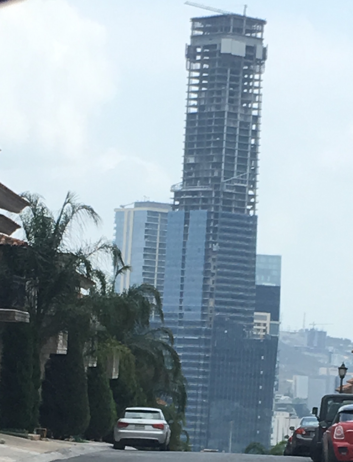 Torre Koi as seen from Ave. Eugenio Garza Lagüera in May 2016.